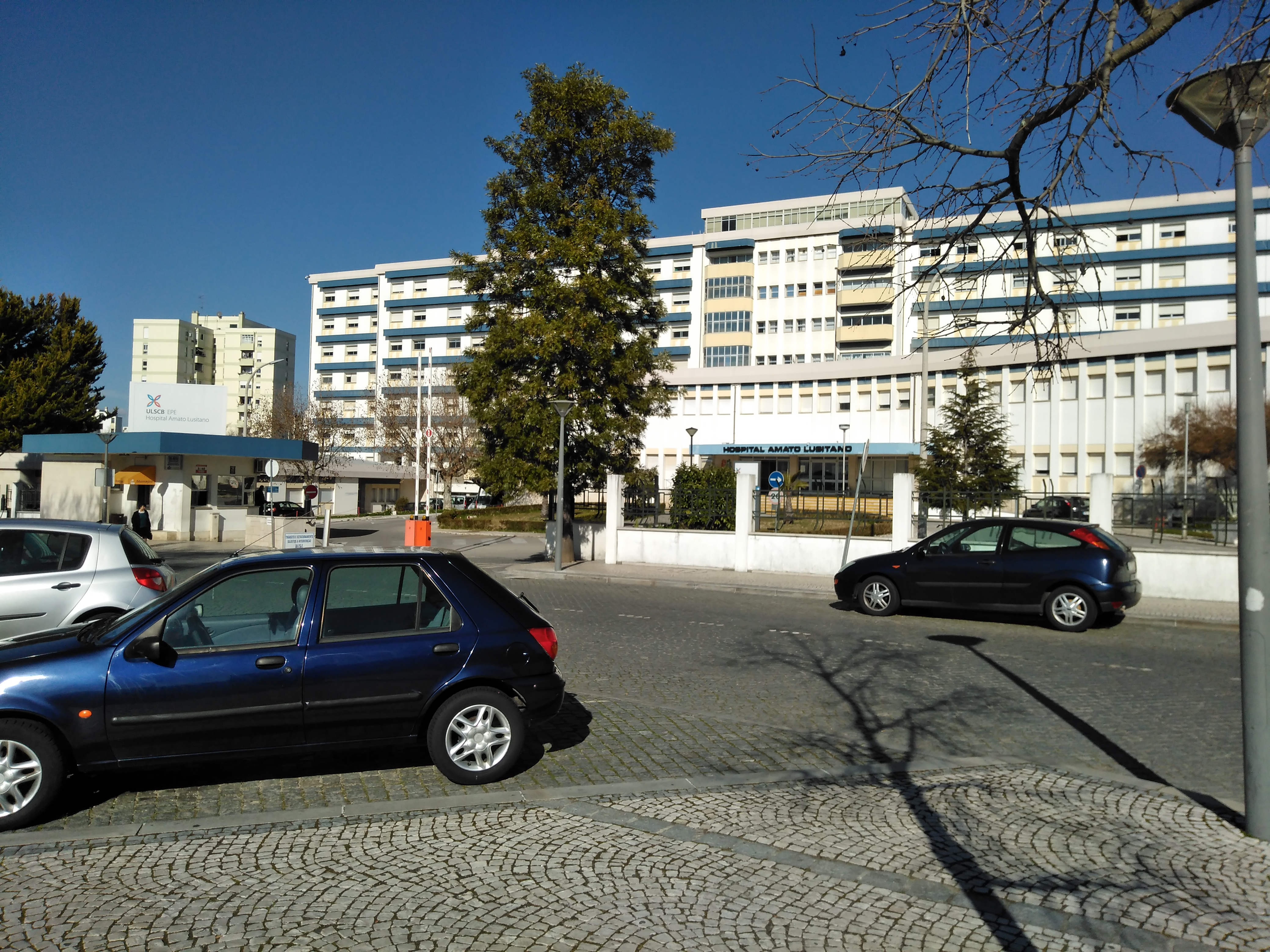 Hospital Amato Lusitano again